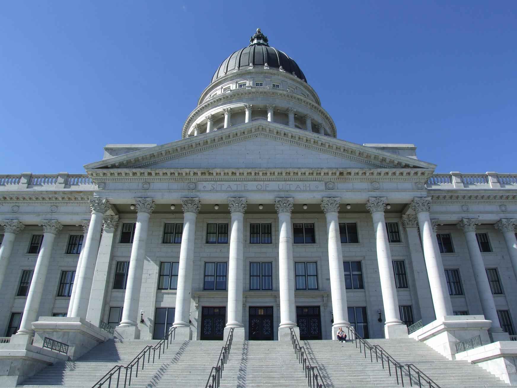 The front entrance to the Utah State Capitol Building in Salt Lake City.